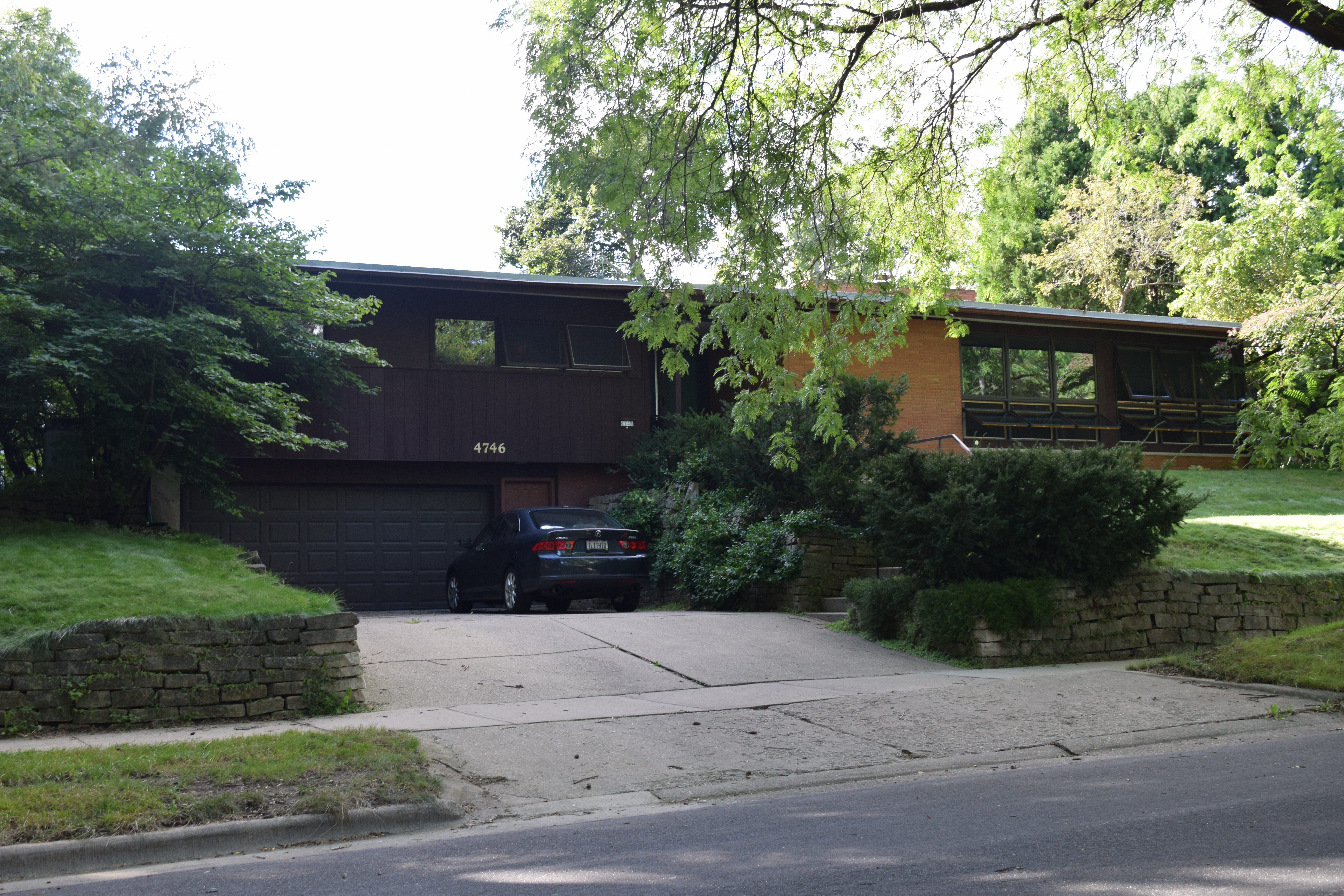 House at 4746 Lafayette Drive in the University Hill Farms Historic District in Madison, Wisconsin.